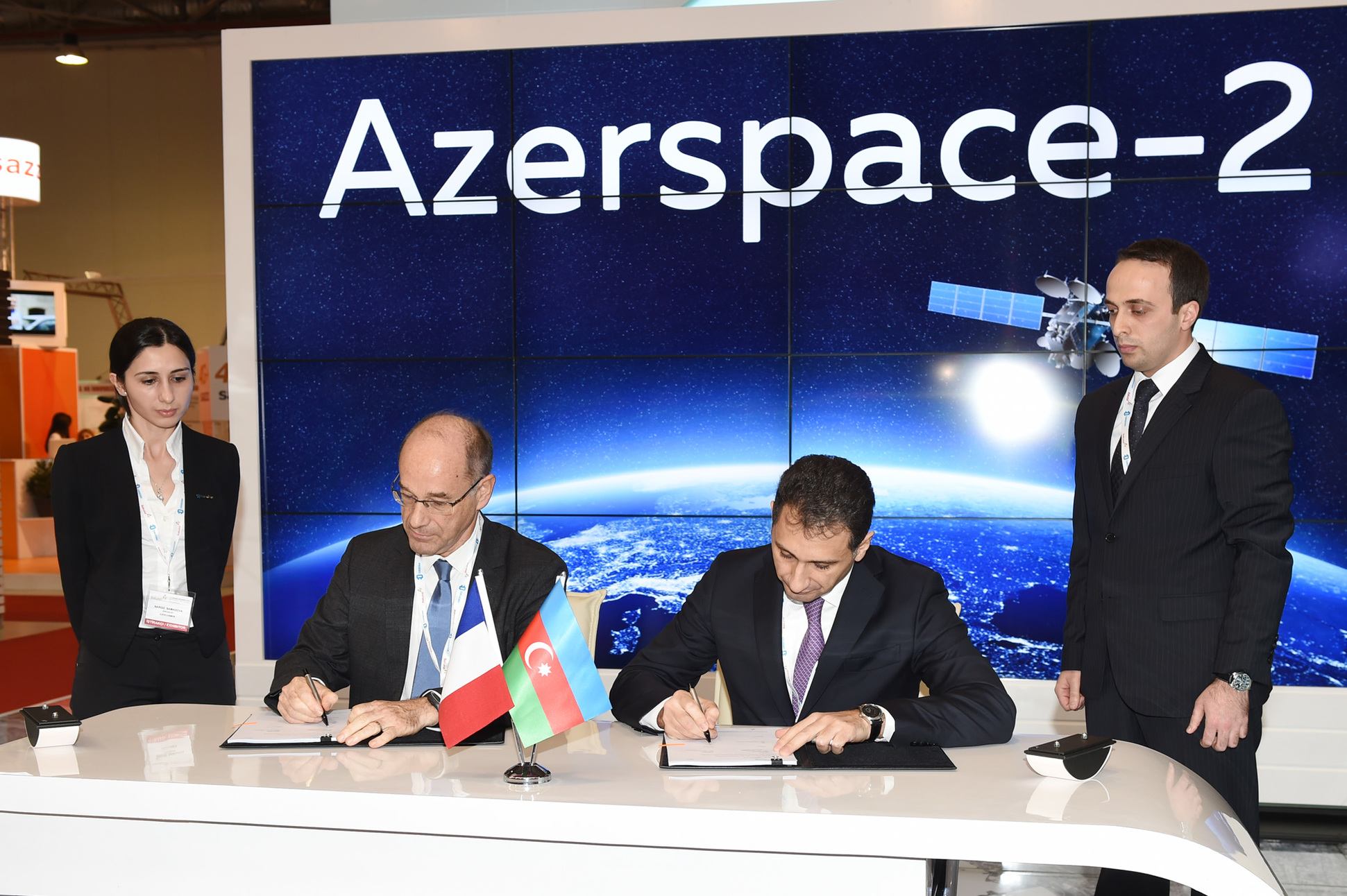 Ilham Aliyev visited Baкutel 2015 exhibition